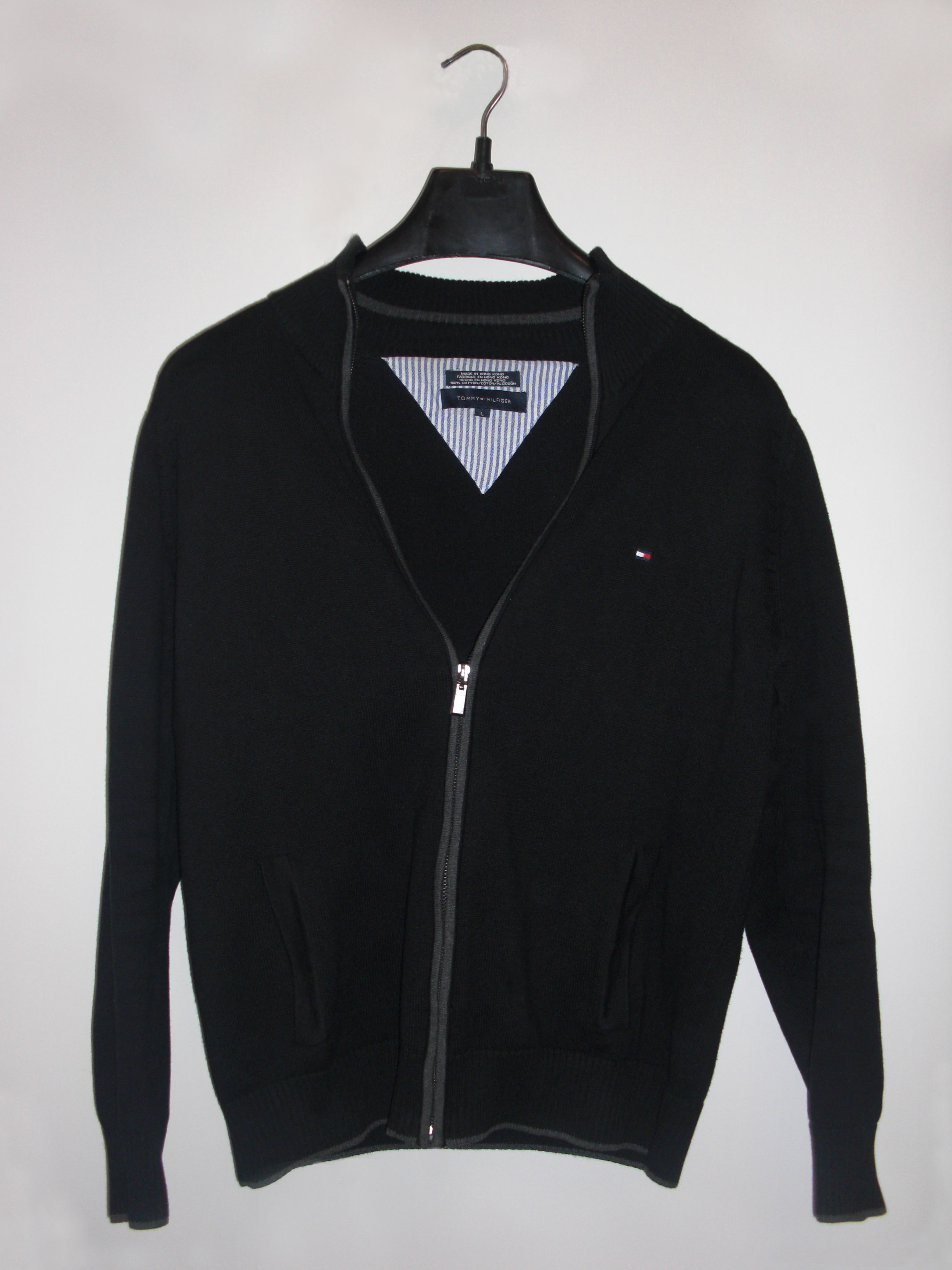 Tommy Hilfiger jacket.